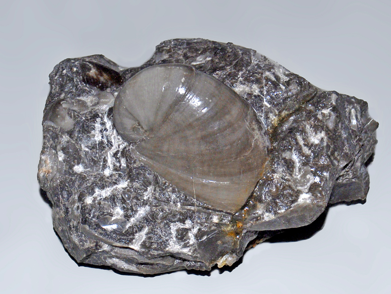 Naticopsis from Ladinian of Italy, on display at the Museo Civico di Storia Naturale of Lecco